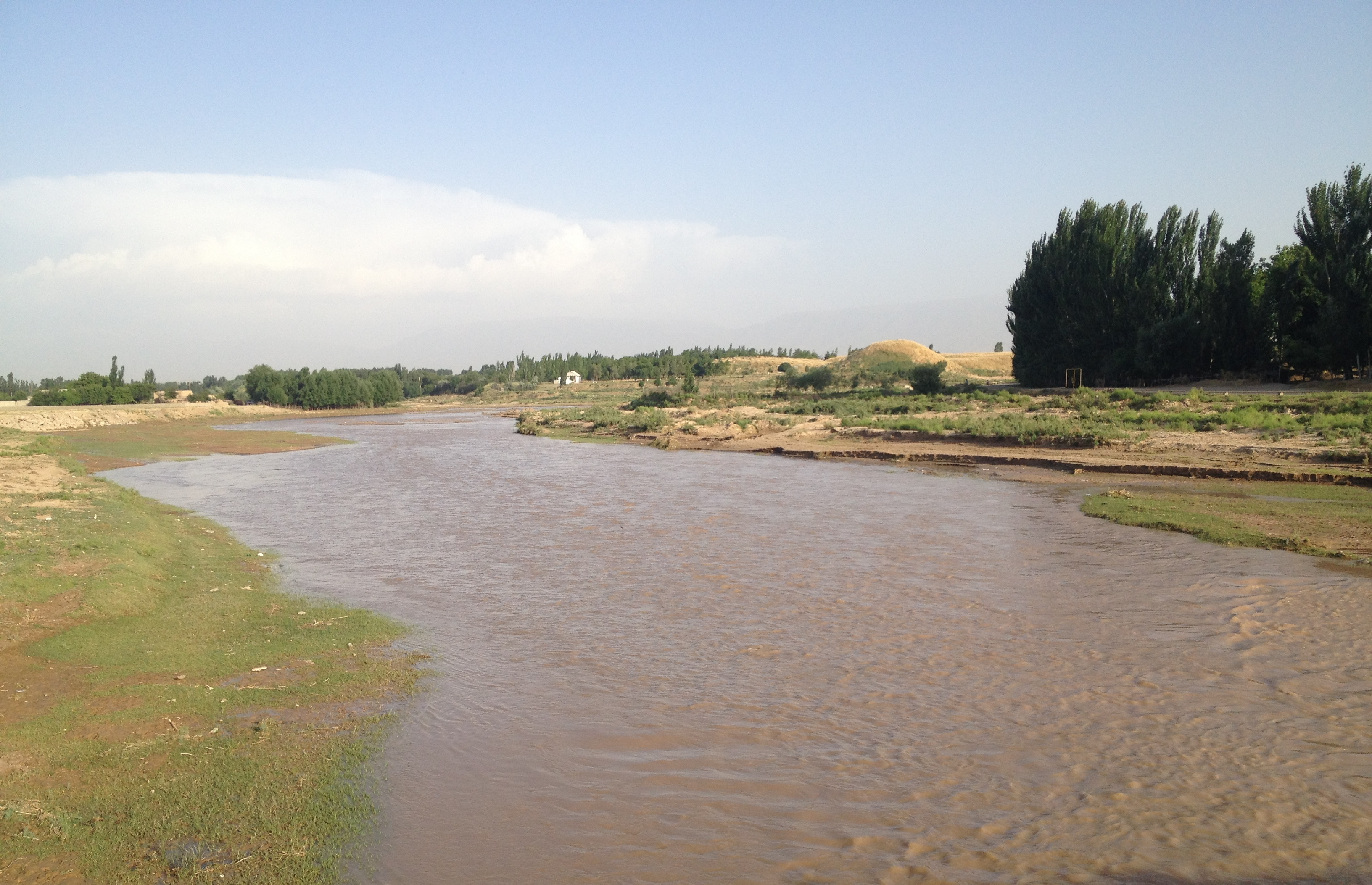 Tankhazy-Darya (after confluence with Kizyl-Darya)